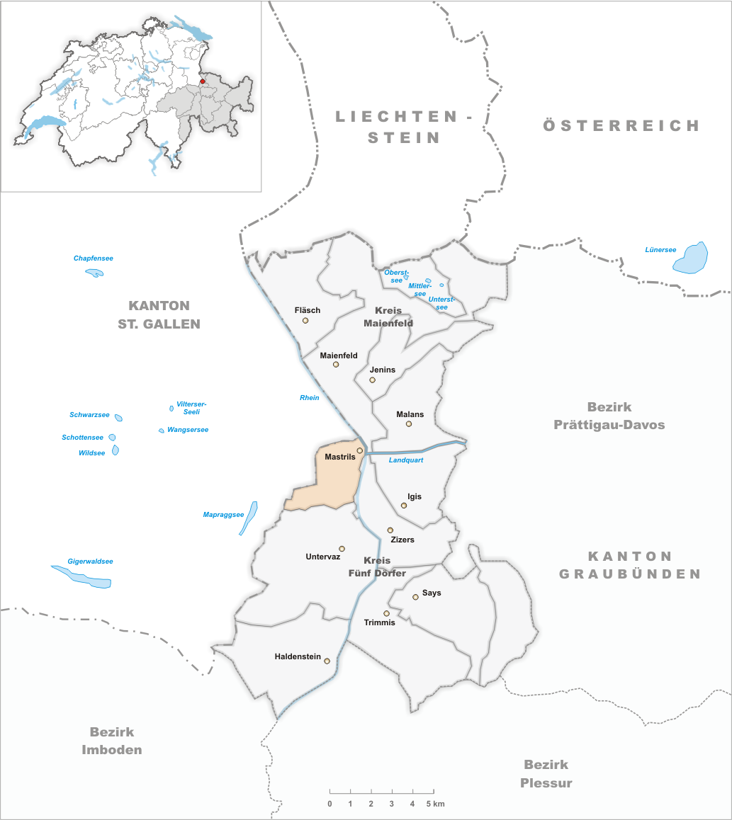 Municipality Mastrils